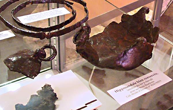 Photo of a hipposandal (Gallo-Roman horseshoe). On display at the Musee d'Ermont, France. Photo taken by NantonosAedui with a Canon G1 digital camera and reduced to suitable dimensions in Photoshop.